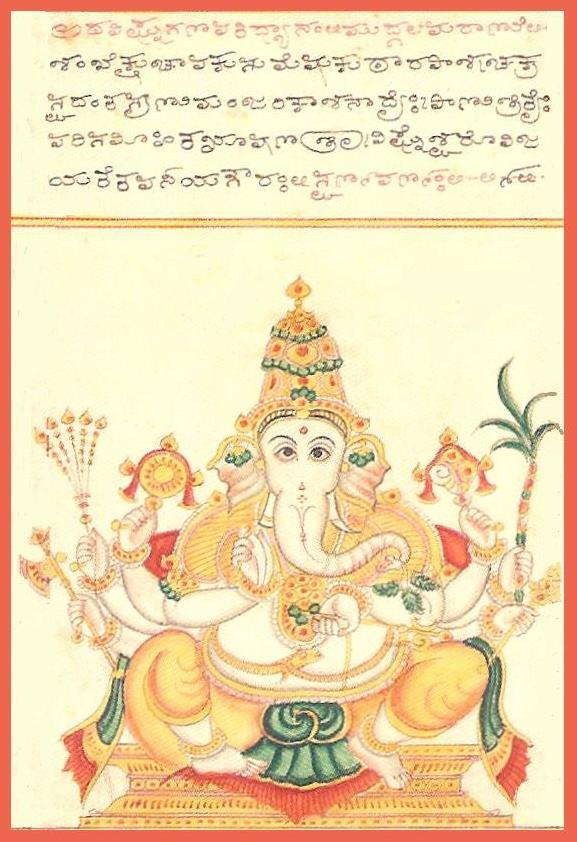 Mummadi Krishna Raja Wodeyar. Reproduction from the Sritattvanidhi ("The Illustrious Treasure of Realities"), an iconographic treatise compiled in the 19th century in Karnataka, India, by order of the then Maharaja of Mysore, Krishnaraja Wodeyar III (b. 1794 - d. 1868).